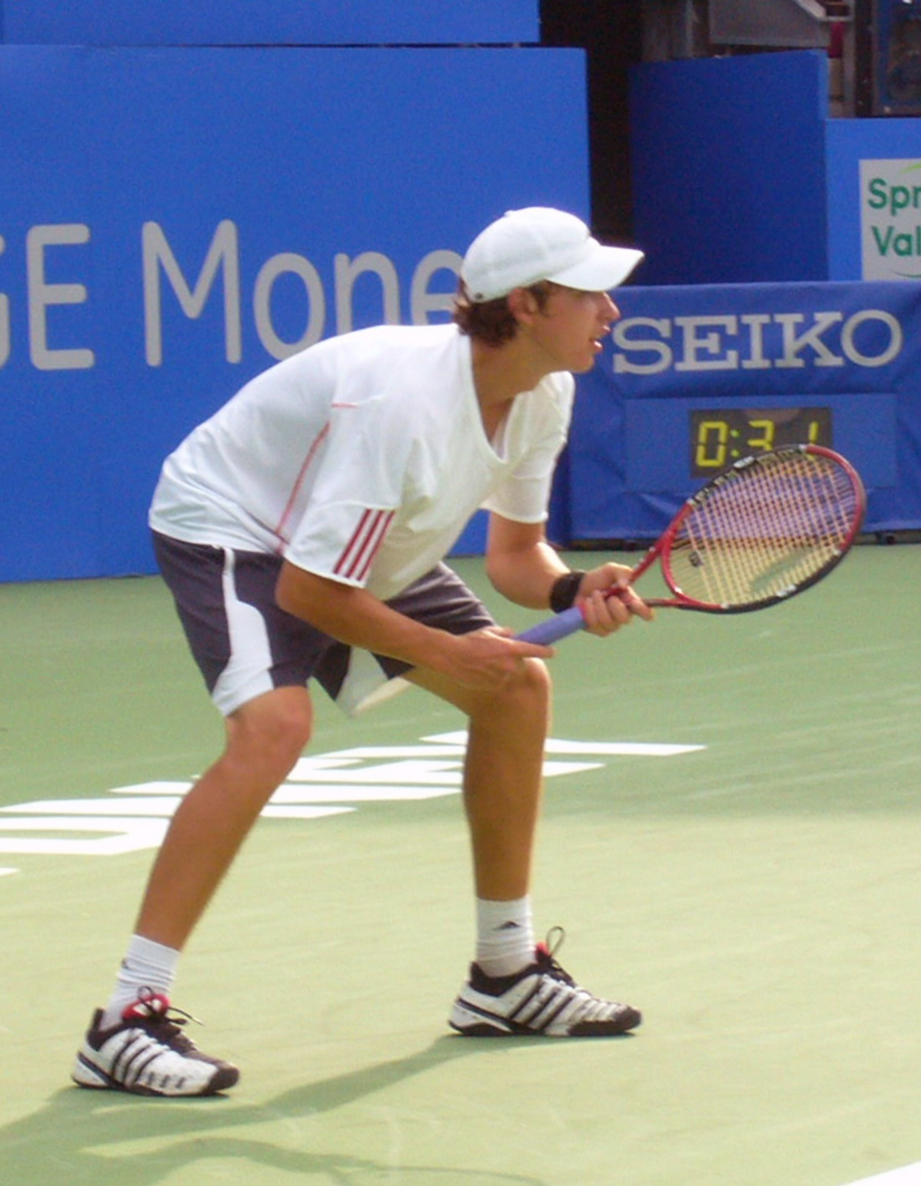 Ernests Gulbis at the Sydney Medibank International 2007, first-round match against Marcos Baghdatis.